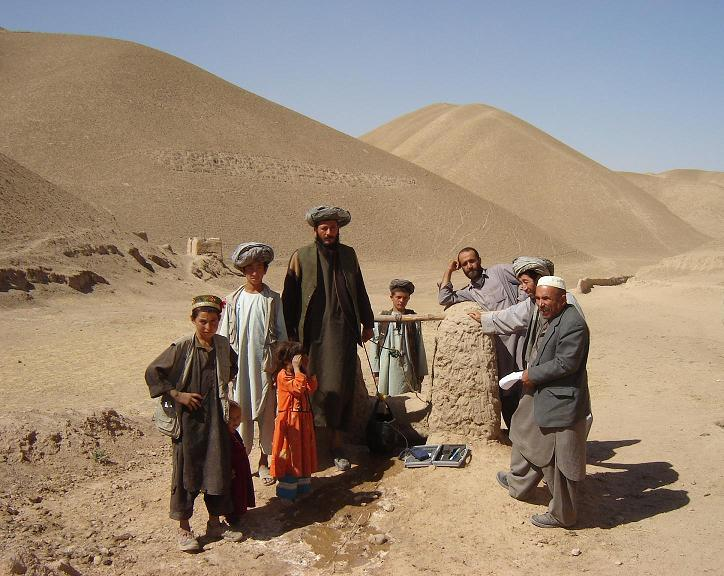 A dug well along a road in the district of Shiring Tagab in Afghanistan